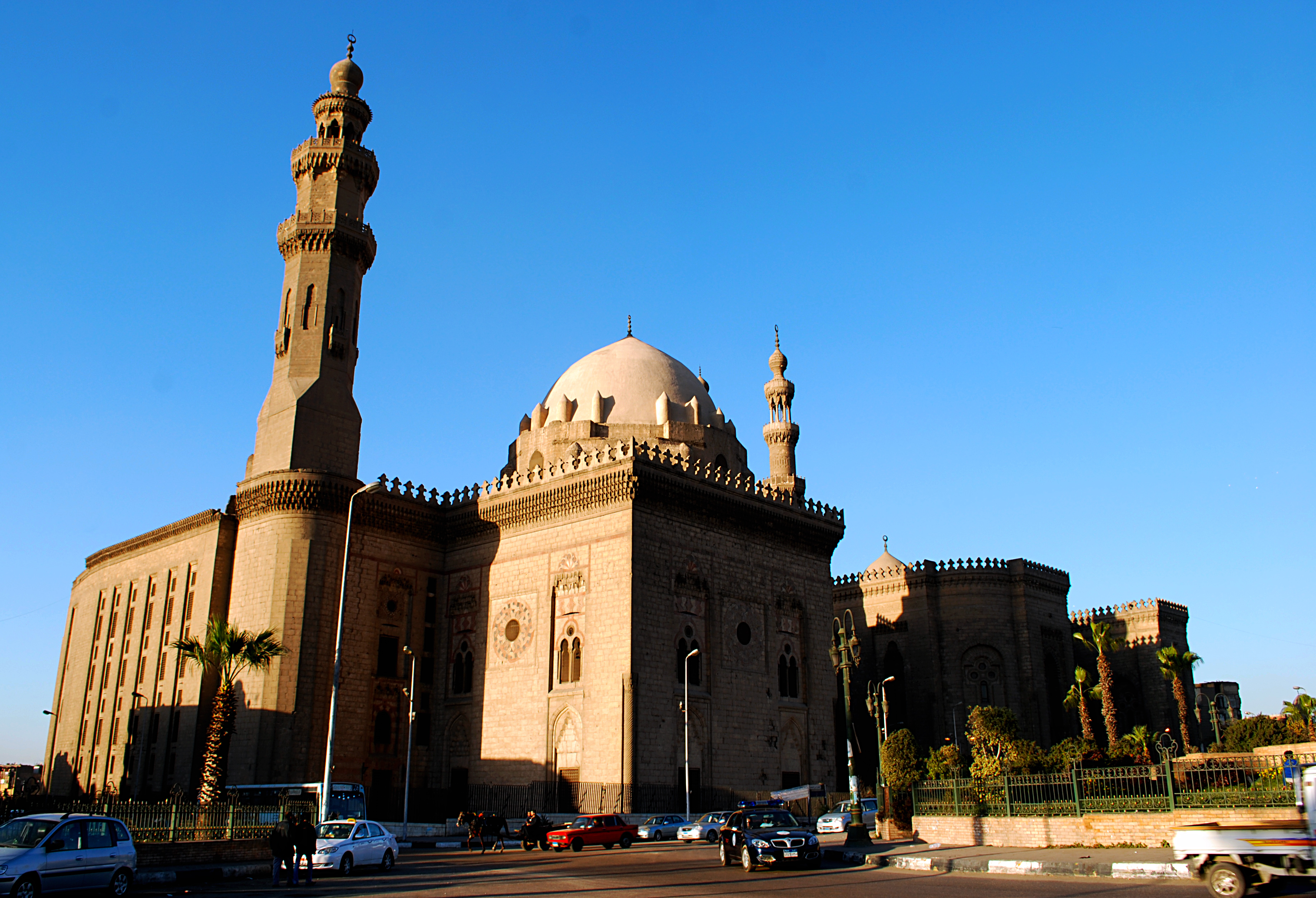 The Mosque-Madrassa of Sultan Hassan is a massive Mamluk era mosque and madrassa located near the Citadel in Cairo. Its construction began 757 AH/1356 CE with work ending three years later "without even a single day of idleness"